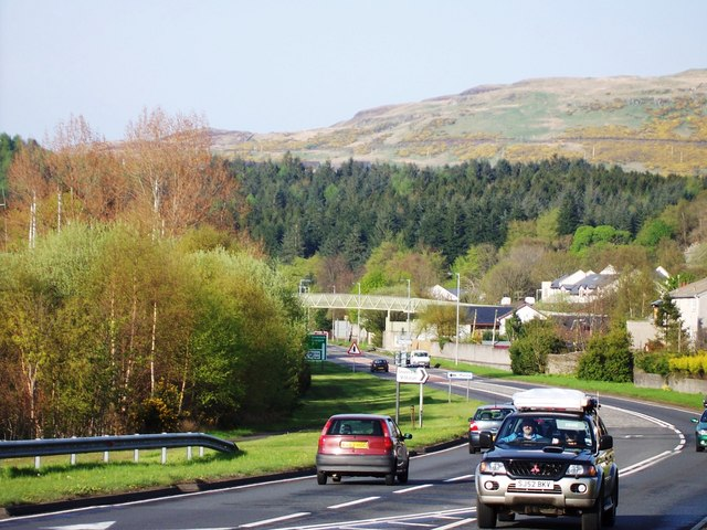 A78 Inverkip Bypass Recent housing developments mean that the 35 year old 'bypass' now actually bisects the village. The dark horizontal band around Cauldron Hill in the background is the Greenock Cut which delivered water to the town from Loch Thom for industrial and domestic use until made redundant by a tunnel in 1971. The Cut is currently being restored and made more accessible to all 129696 Compare with this photo 388135 which was taken 11 months later.